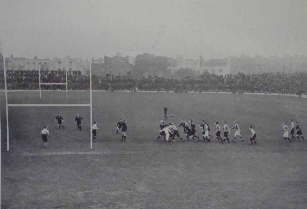 The All Blacks playing Middlesex at Stamford Bridge stadium of London, during his 1905 tour.